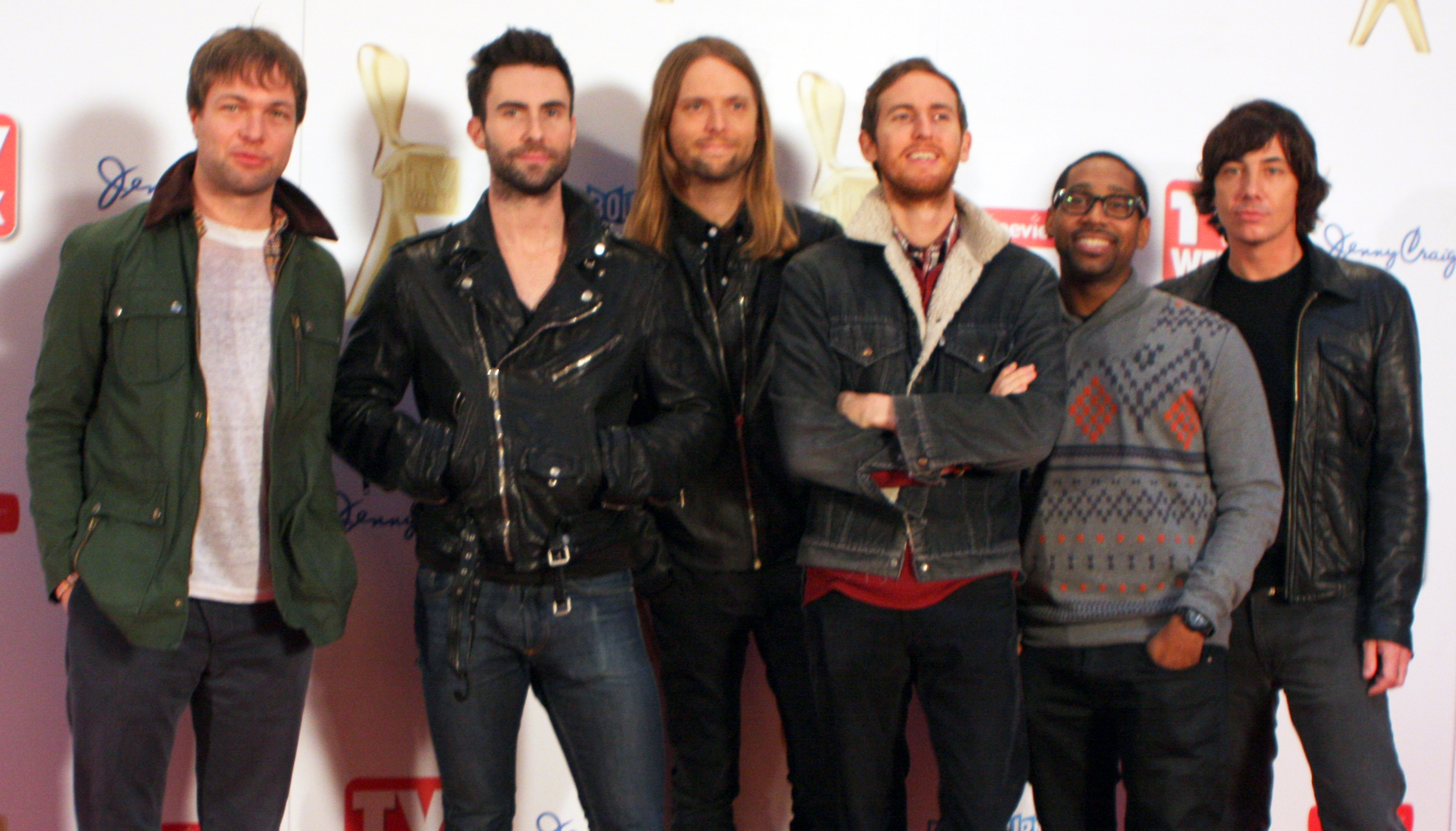 Maroon 5 at the TV Week Logies 2011.